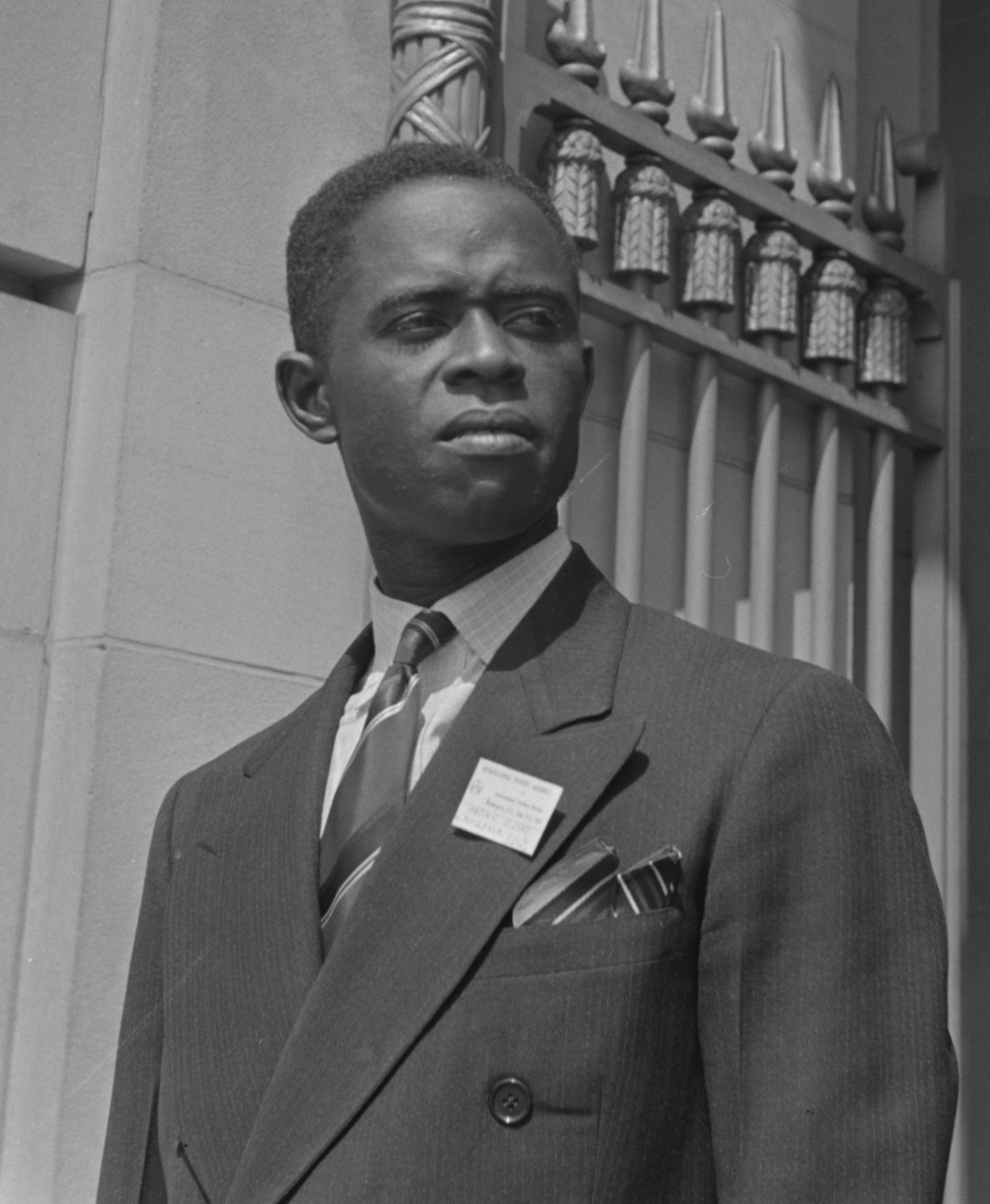 Washington, D.C. International student assembly. Mbonu Ojike, an African delegate from Nigeria. Notes - Title and other information from caption card. - Transfer; United States. Office of War Information. Overseas Picture Division. Washington Division; 1944. - More information about the FSA/OWI Collection is available at - Film copy on SIS roll 11, frame 172. Medium 1 negative : nitrate ; 2 1/4 x 2 1/4 inches or smaller. Call Number/Physical Location LC-USW3- 007579-E [P&P] LOT 163 (corresponding photographic print) Source Collection Farm Security Administration - Office of War Information Photograph Collection (Library of Congress)